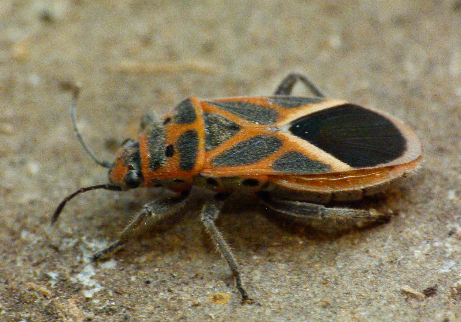 Graptostethus servus, Lygaeidae photographed in Bangalore.